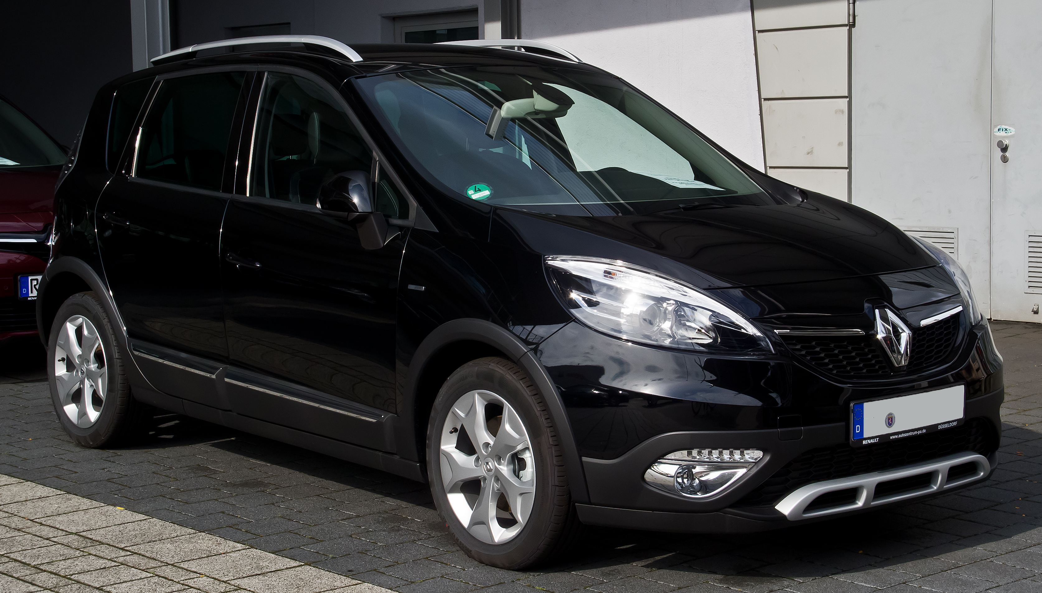 Renault Scénic XMOD Bose Edition ENERGY dCi 130 Start & Stop eco² (III, 2. Facelift)